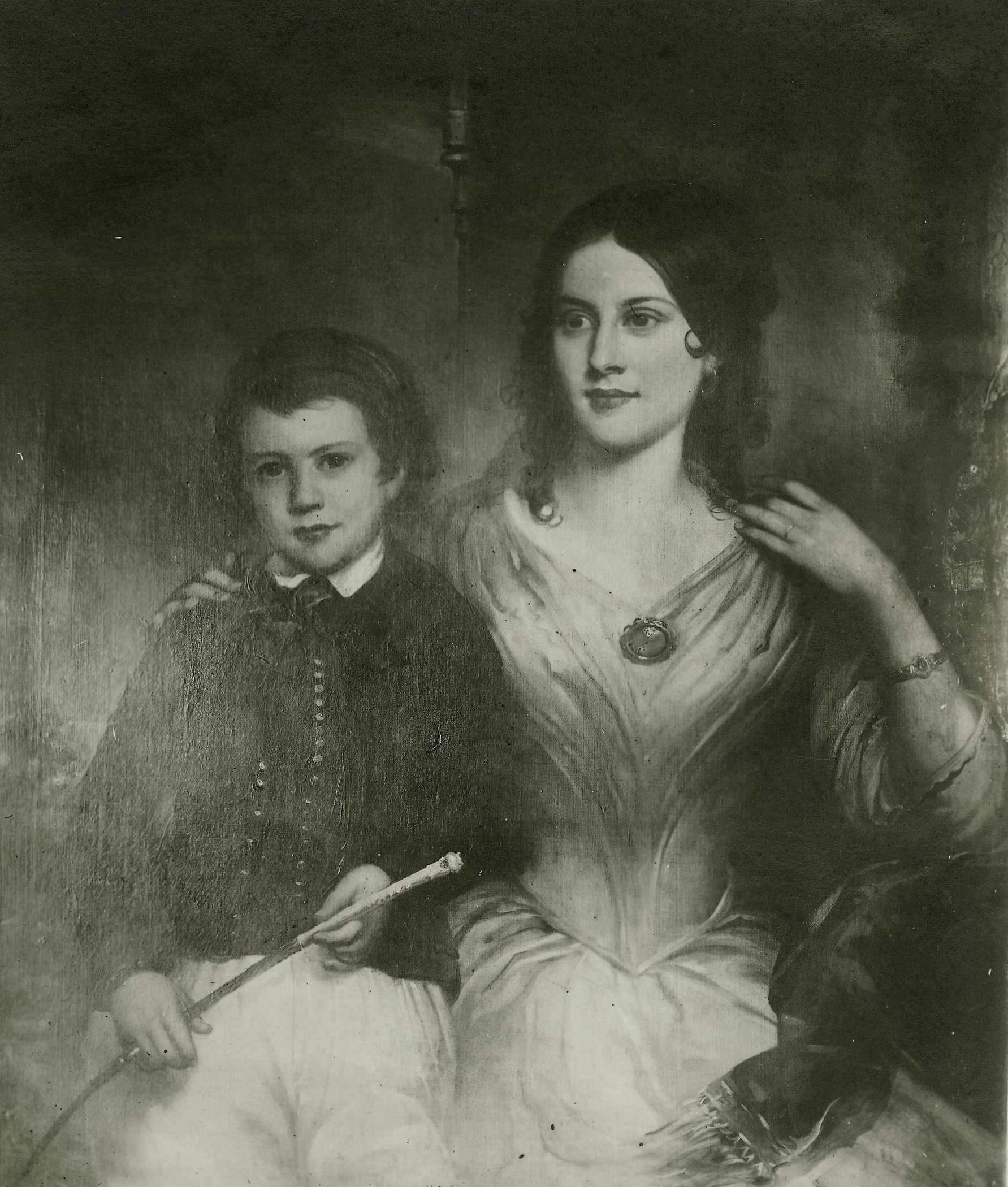 Eliza and son George O'Flaherty. Photograph of painting, ca. 1850. Title: Eliza O'Flaherty (mother of Kate Chopin) with Kate's half-brother George O'Flaherty.